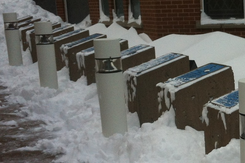 Faith Centre Plaques CFB Halifax